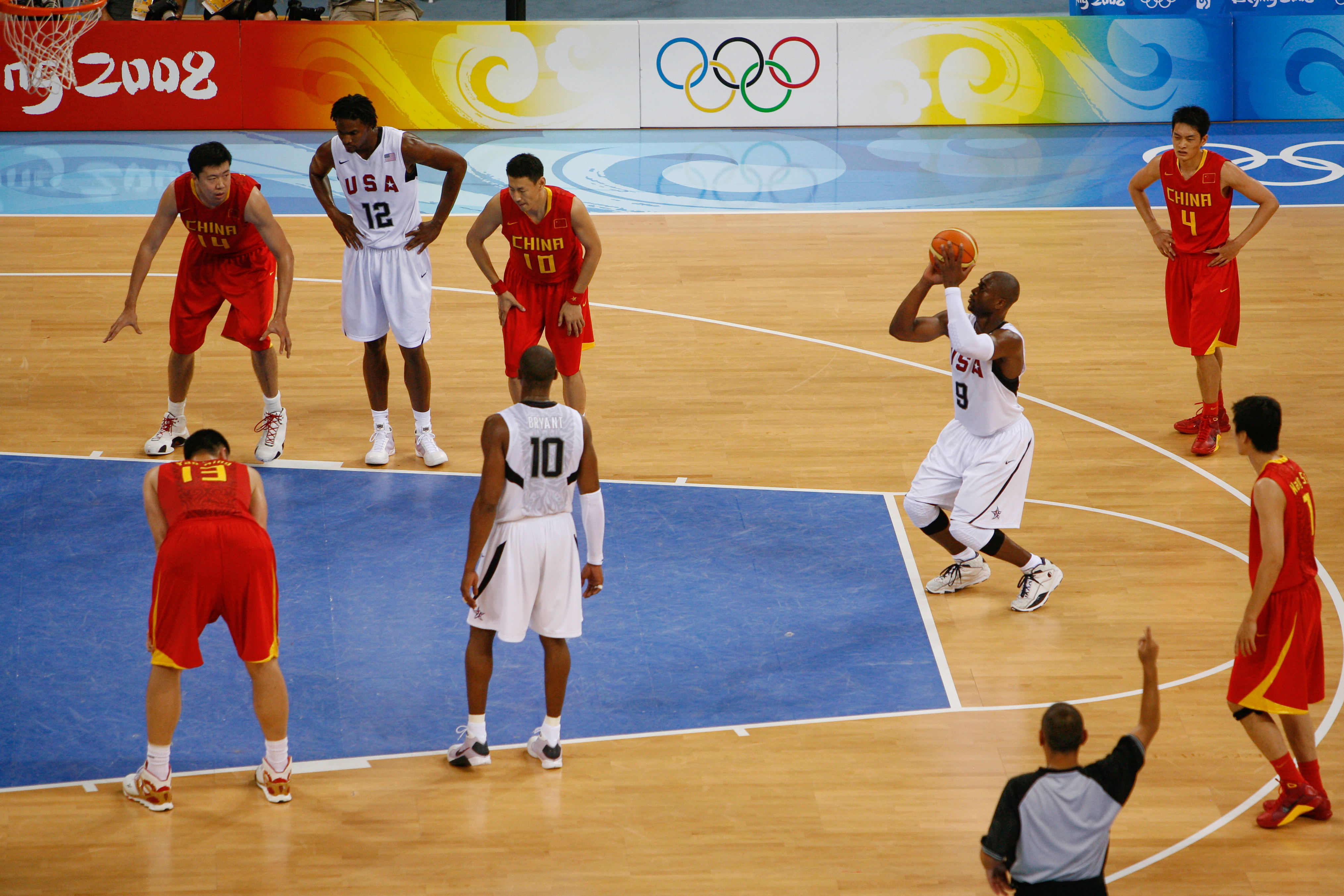 USA vs. China Mens Basketball - Beijing 2008 Olympic Games